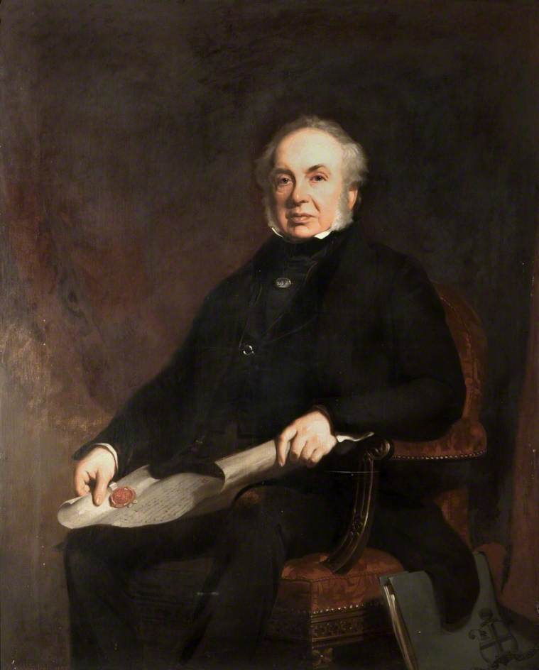 Portrait of Joseph Brooks Yates (1780–1855), English merchant and antiquarian.